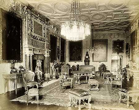 the ballroom